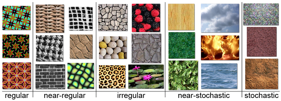 This image was created as part of the publication "Near-regular Texture Analysis and Manipulation." Yanxi Liu, Wen-Chieh Lin, and James Hays. SIGGRAPH 2004. I (= Jhhays) am the third author of this paper and the creator of this specific image.